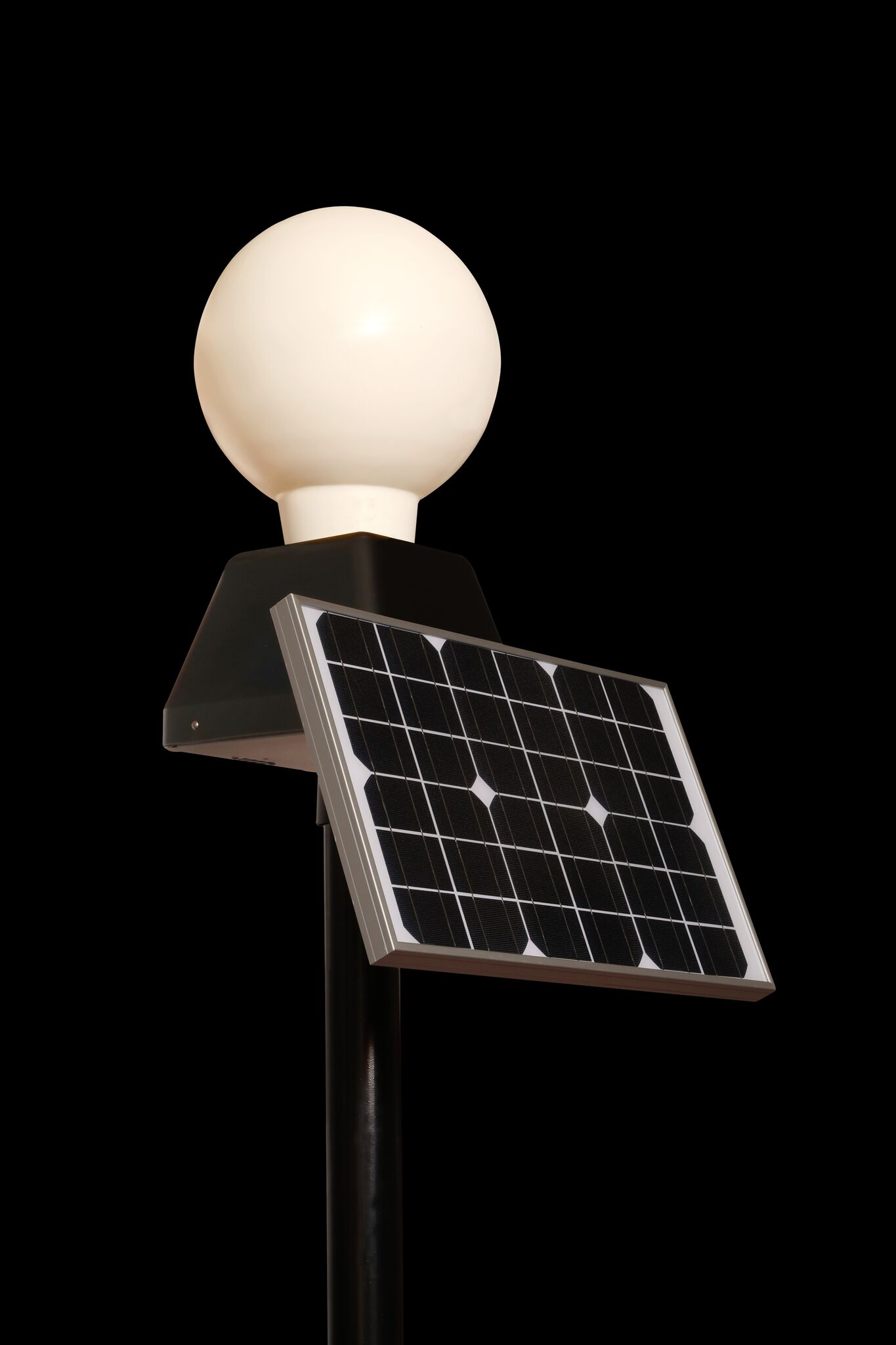 Picture of Solar Powered Refuge Beacon